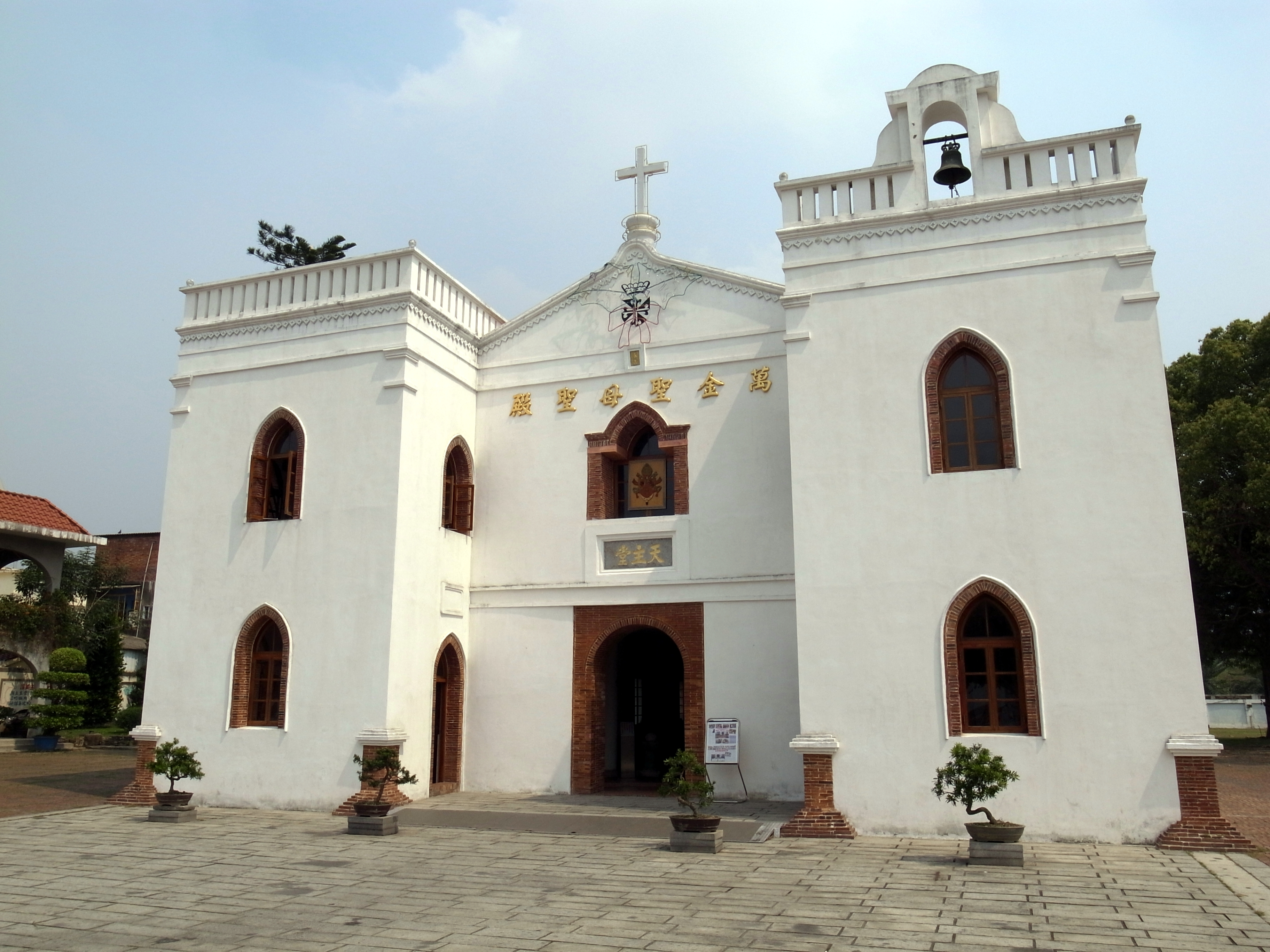 The front external view of the Catholic Church of Wanchin, which is the oldest catholic church in Taiwan.